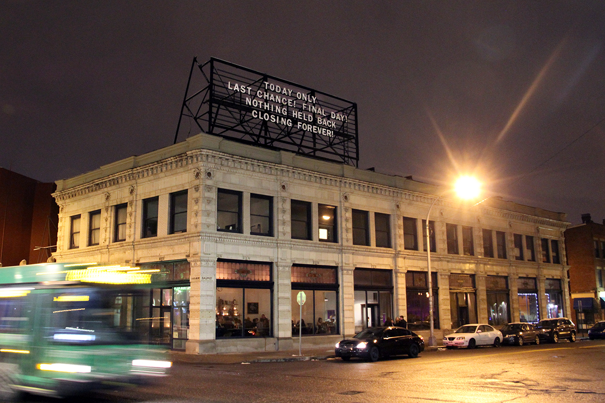 Installation of The Last Billboard with text by artist Kim Beck.